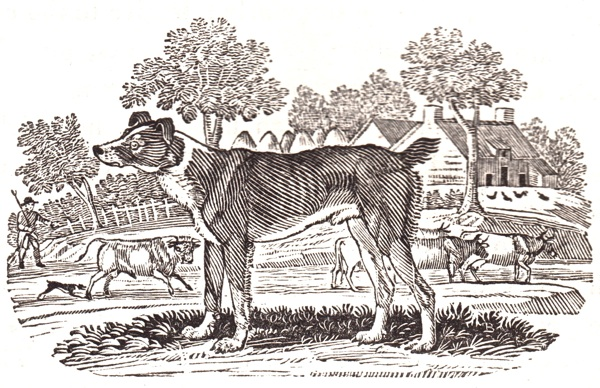 Engraving of a cur dog by Thomas Berwick in A general history of quadrupeds, 1791.